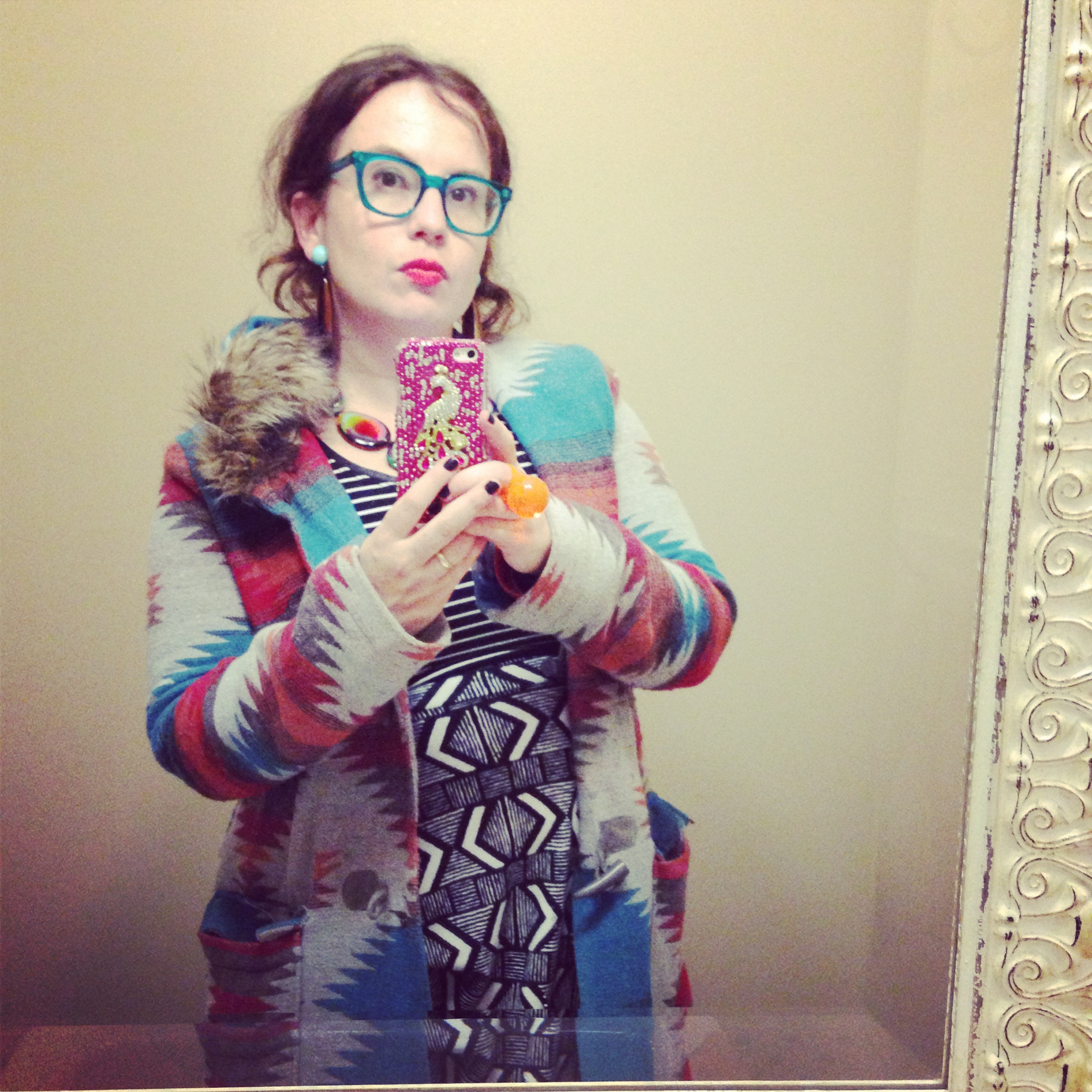 Dorothea Lasky